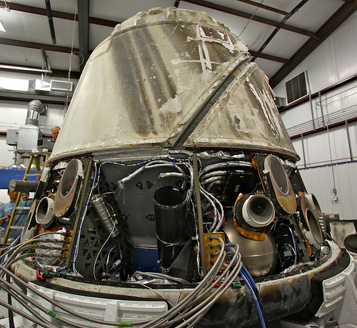 The side view, with the diagonal recessed line for the drogue parachute lines. They are set off at that angle to allow the thrusters to be in ideal position. The black cylinder is the drogue chute cannon.